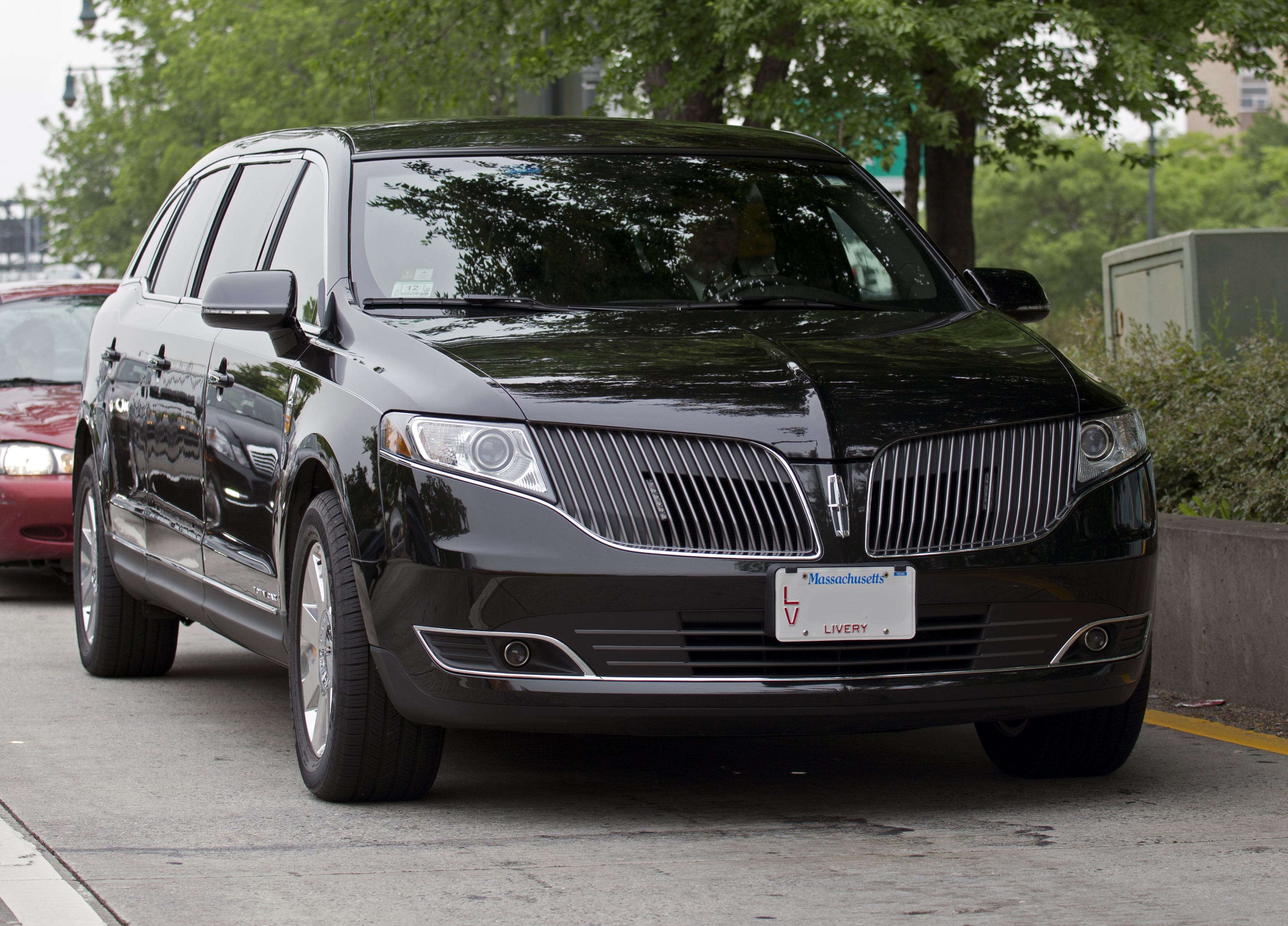 Lincoln Mk T Town Car, six-door limousine version.